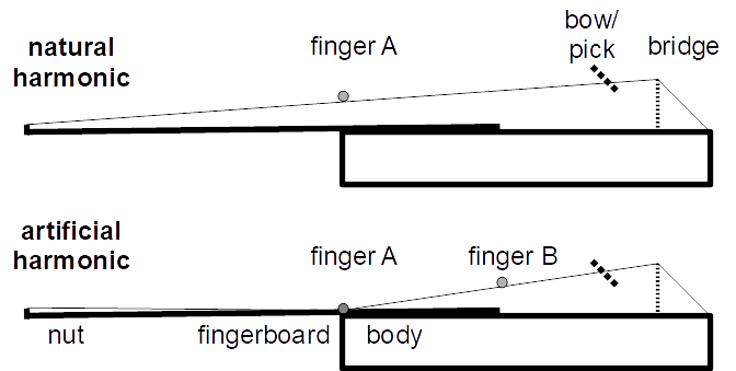 Natural versus artificial harmonic on a string instrument such as a violin. One octave versus two.